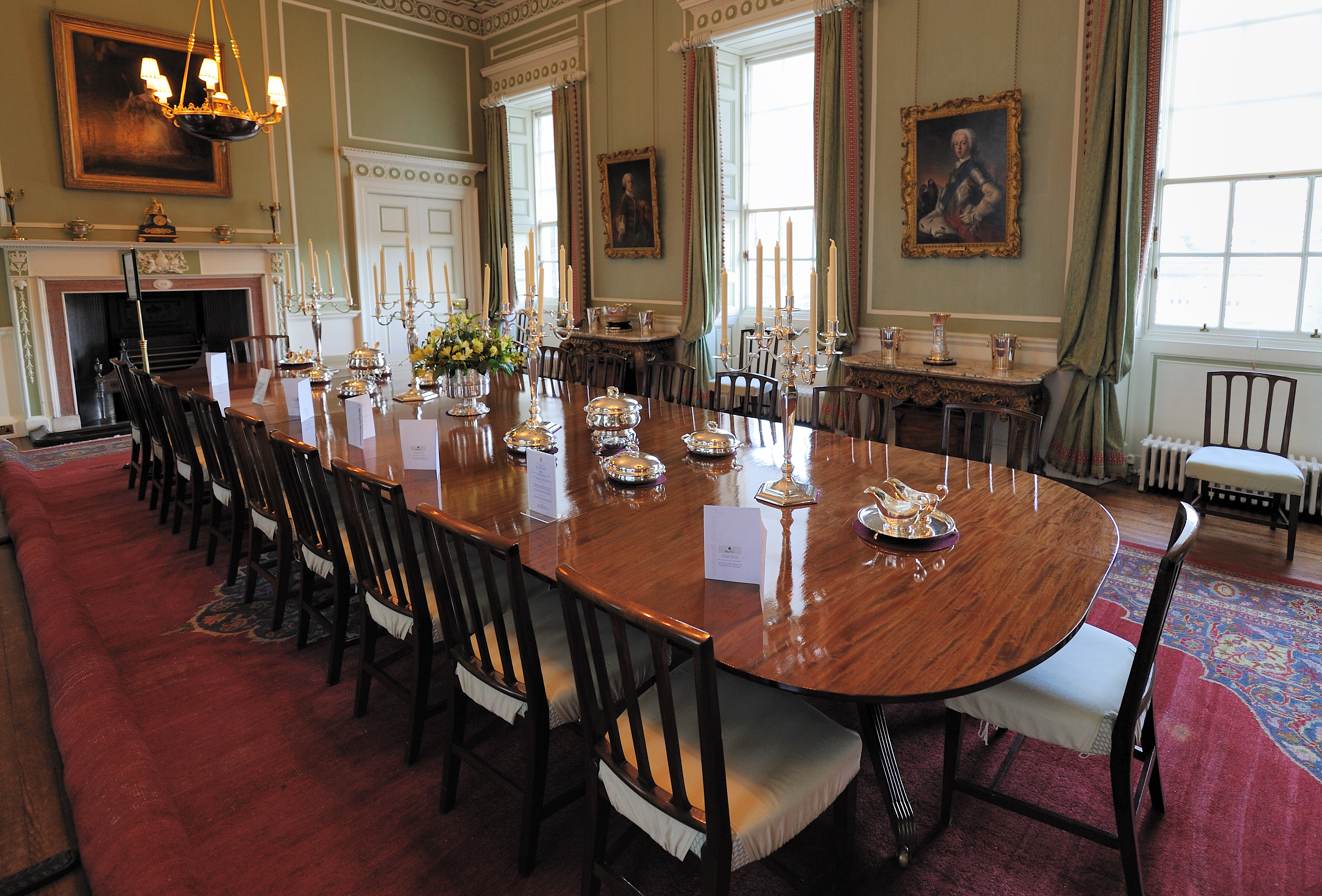 The dinning room in Holyrood Palace.